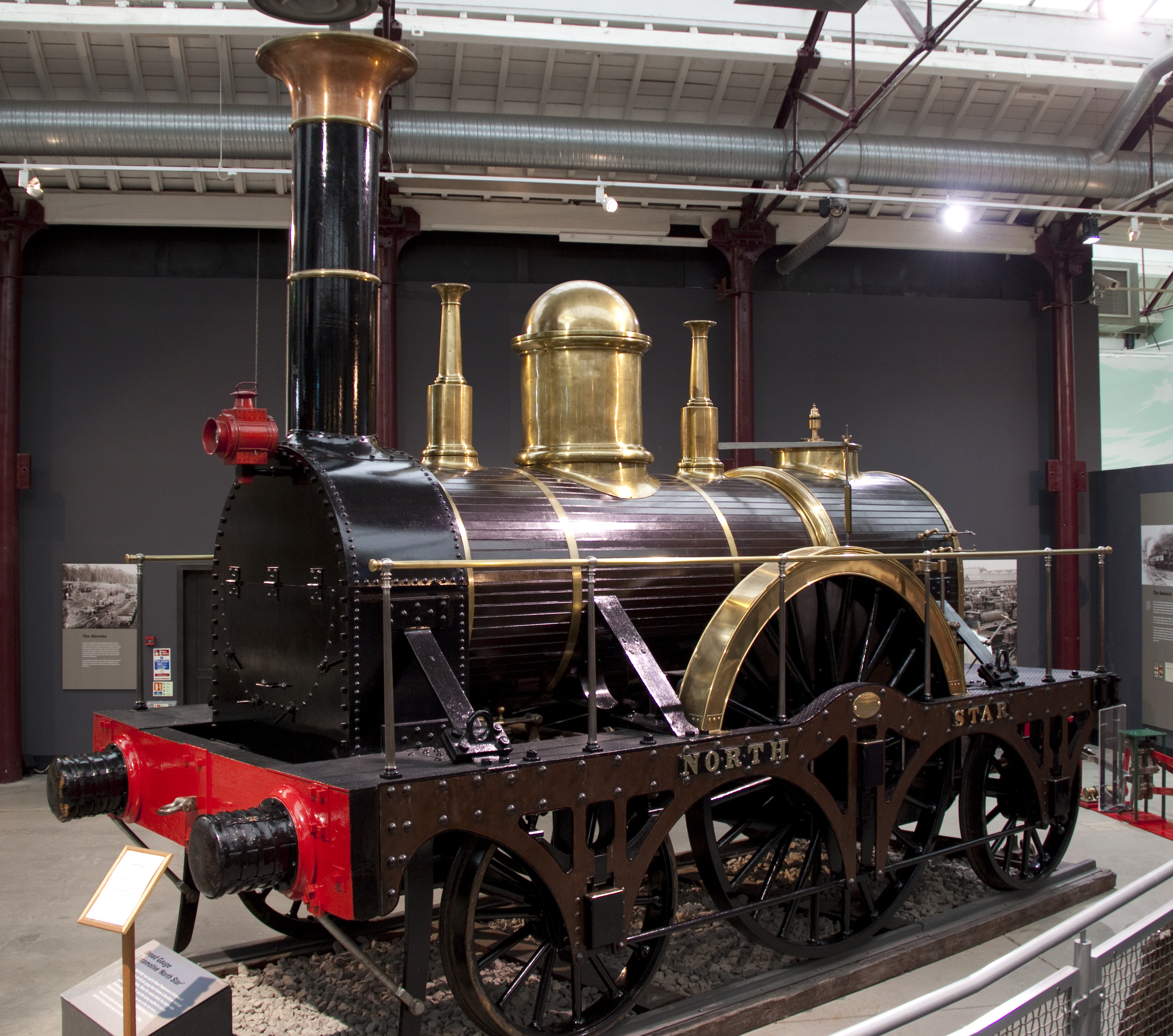 North Star 4